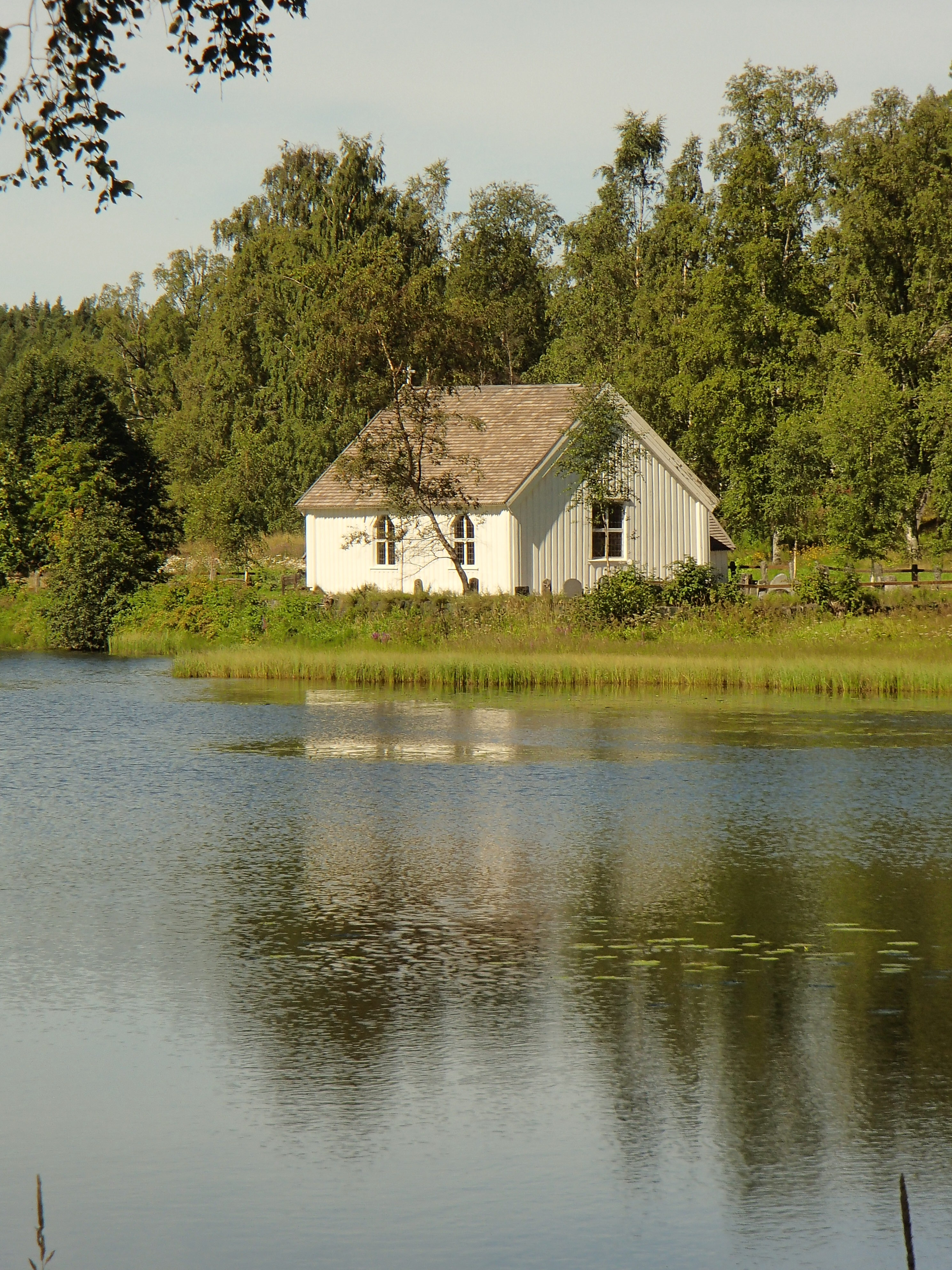 The church building of "Galtströms brukskyrka" at Galtström, Sundsvall Municipality